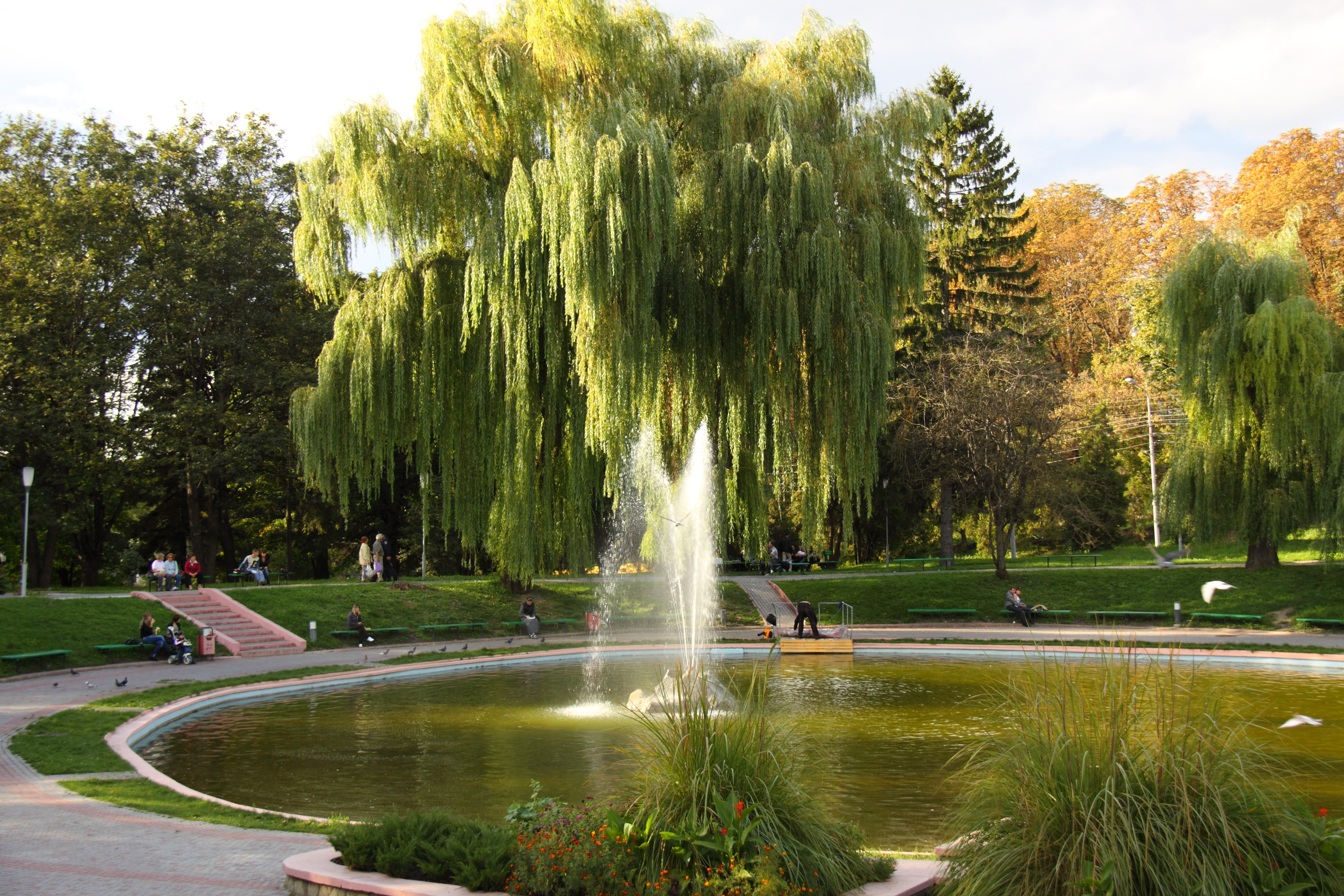 Park with a fountain in the city of Kamianets-Podilskyi, Ukraine.